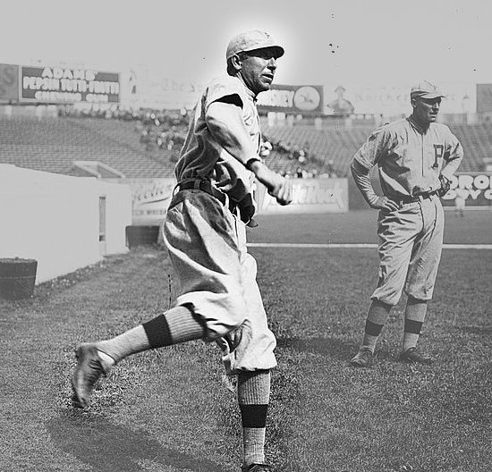 Tom Seaton, former Baseball player.